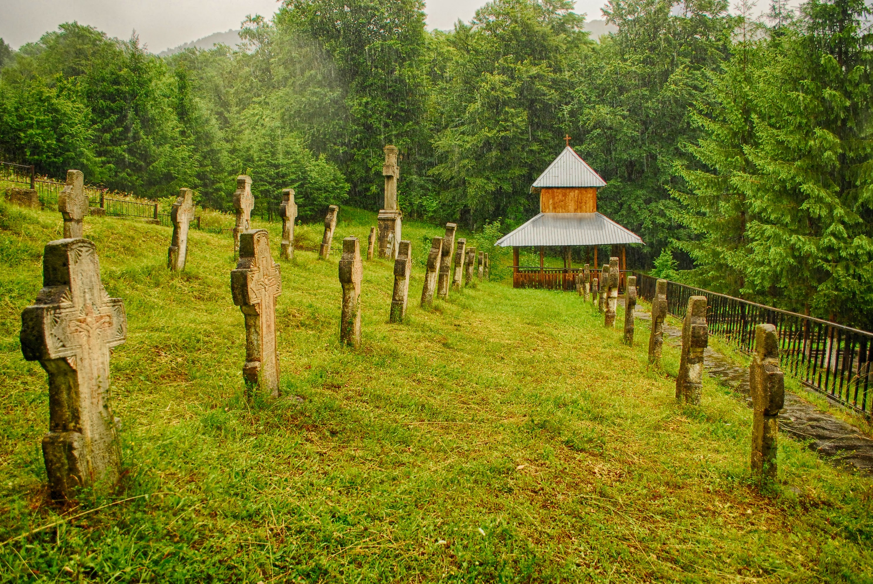 World War I heroes' cemetery near Gura Siriului, Siriu commune, Buzău County, RomaniaRomână: Cimitirul eroilor din Primul Război Mondial de lângă Gura Siriului, comuna Siriu, județul Buzău, România 02